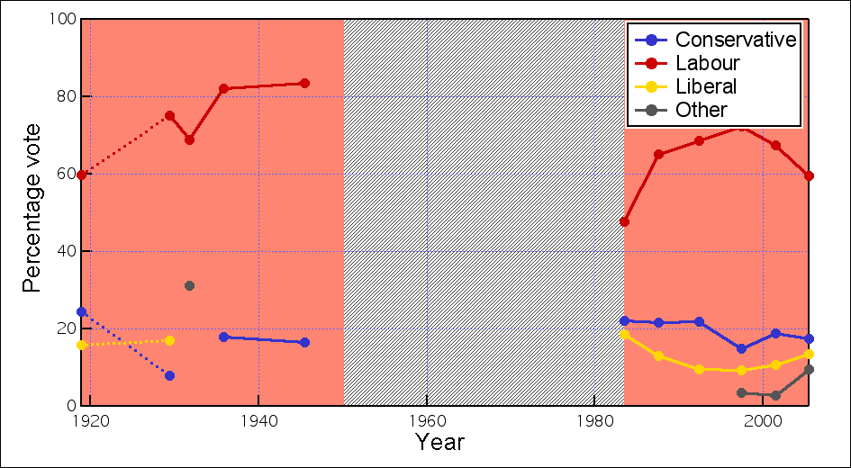 United Kingdom general election results for Sheffield Wentworth constituency from its original creation in 1918 to its abolishion in 1950, and from its re-creation in 1983 to 2005. Notes The Background colour indicates the party of the sitting MP at any given year. The striped grey background indicates the period during which the constituency was abolished. Elections held in 1922, 1923 and 1924 do not appear on this graph. Only one candidate (Labour) stood at each of these elections and so no votes were cast, the candidate being elected unopposed. Dashed lines indicate the missing elections. Parties: Conservative = Conservative Party (UK) Labour = Labour Party (UK) Liberal = Liberal Party (UK) (1918–1950); Social Democratic Party (UK) (1983–1987); Liberal Democrats (UK) (1992–present).